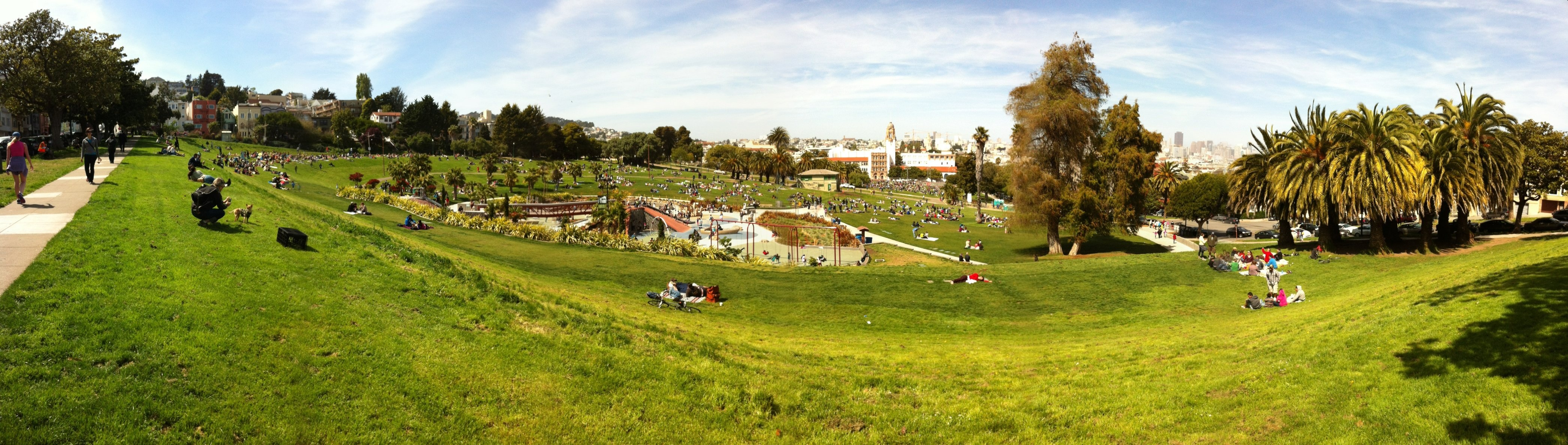 Dolores Park photo montage panorama